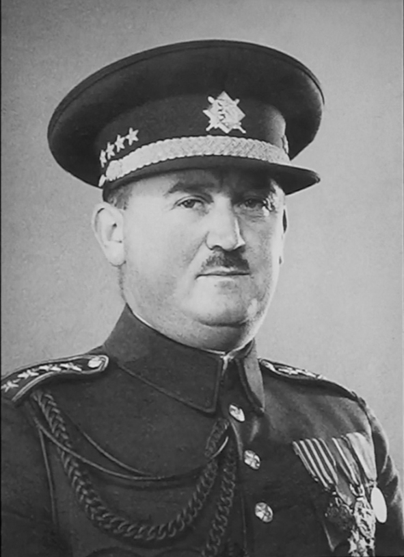 Colonel Josef Churavý (* 1894 – † 1942) (Brigadier General in memoriam). A member of the Czechoslovak legions in Russia. In time of the protectorate was one of the most important persons of anti-nazi resistance. He worked as the leading representative of the illegal military organization "Defence of the Nation". Coworker of the intelligence - sabotage group named "Three Kings" (Balabán, Mašín, Morávek). Josef Churavý in the rank of the Colonel of the General Staff (in the rank of Colonel of the General Staff he was from January 1, 1937 to May 1, 1942). Photo dated by the year 1938.